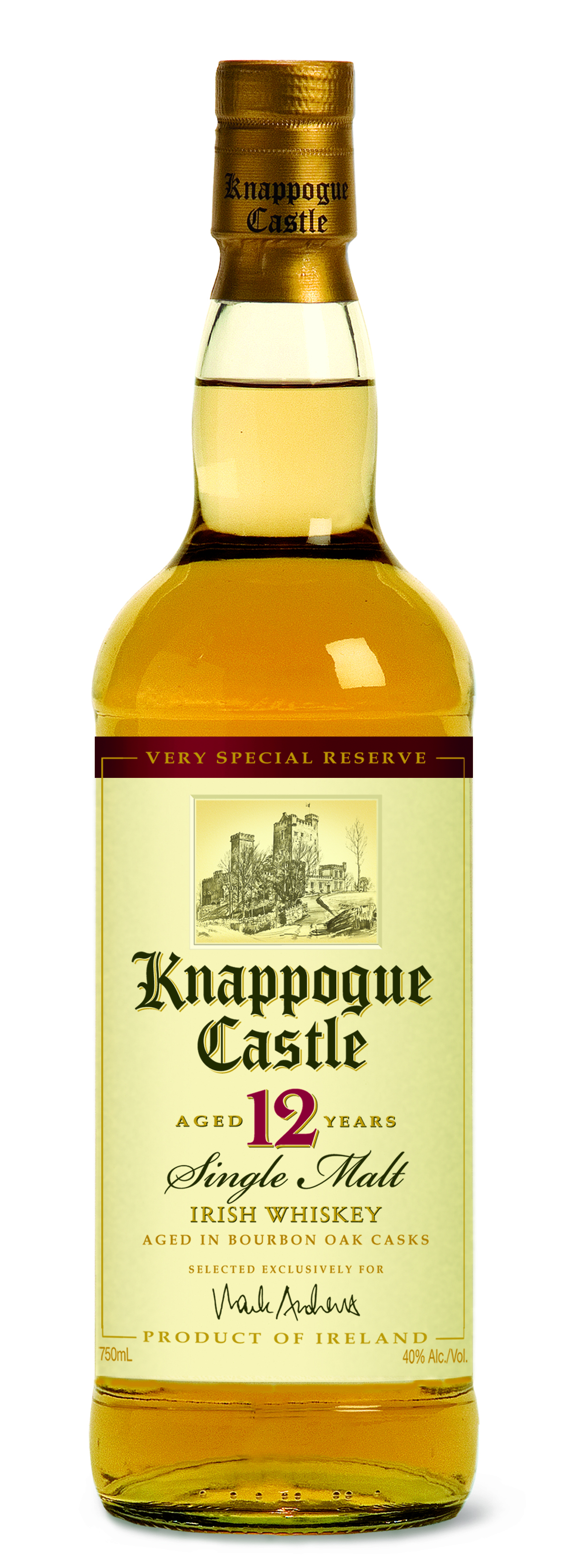 Knappogue Castle 12 Year Old Irish Whiskey bottle shot